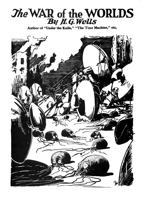 Interior illustration to H. G. Wells' novel The War of the Worlds from reprinting in Amazing Stories, August 1927.